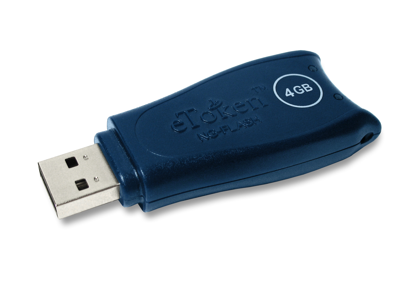 eToken NG-FLASH is a combination of a smart-card-based USB authentication device and a USB flash drive